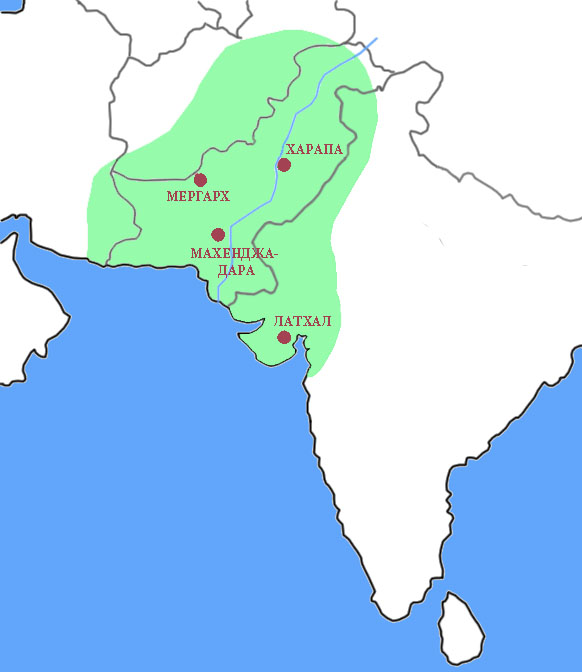 Карта індскай цывілізацыі